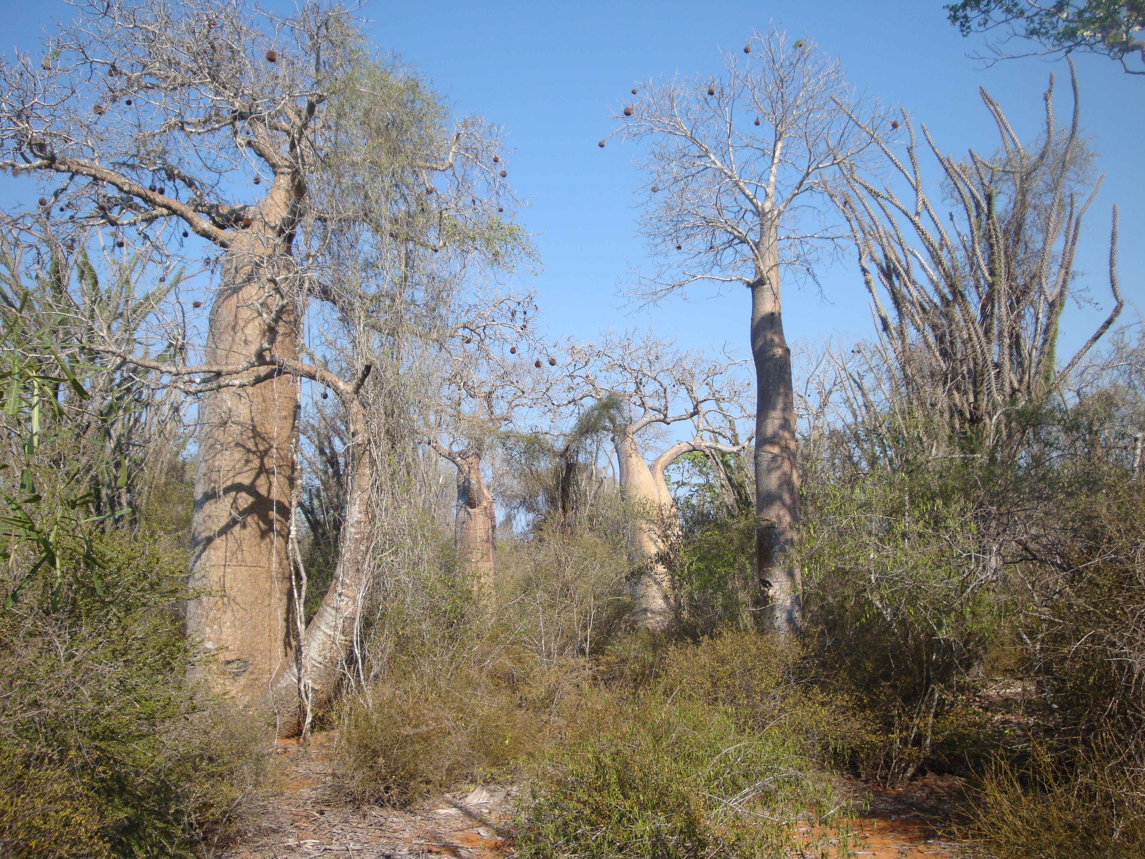 Typical vegetation in the spiny forest at Parc Mosa à Mangily, Ifaty, in southwestern Madagascar